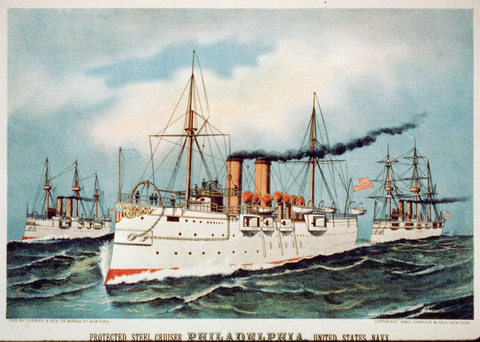 Protected steel cruiser Philadelphia, United States Navy. New York: Published by Currier & Ives. A size. Chromolithograph. Currier & Ives : a catalogue raisonné / compiled by Gale Research. Detroit, MI : Gale Research, c1983, no. 5384